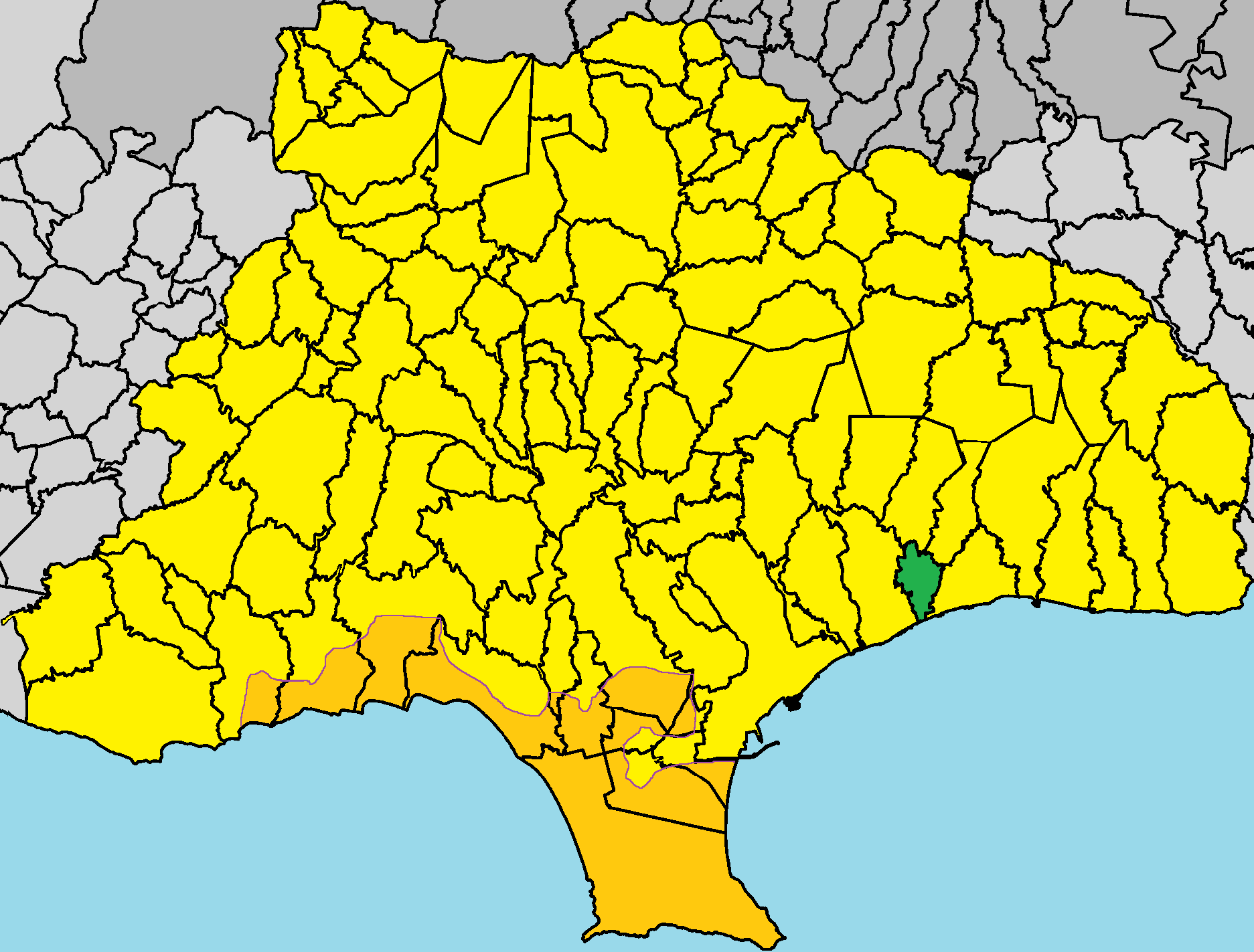 Mouttagiaka in Limassol District.